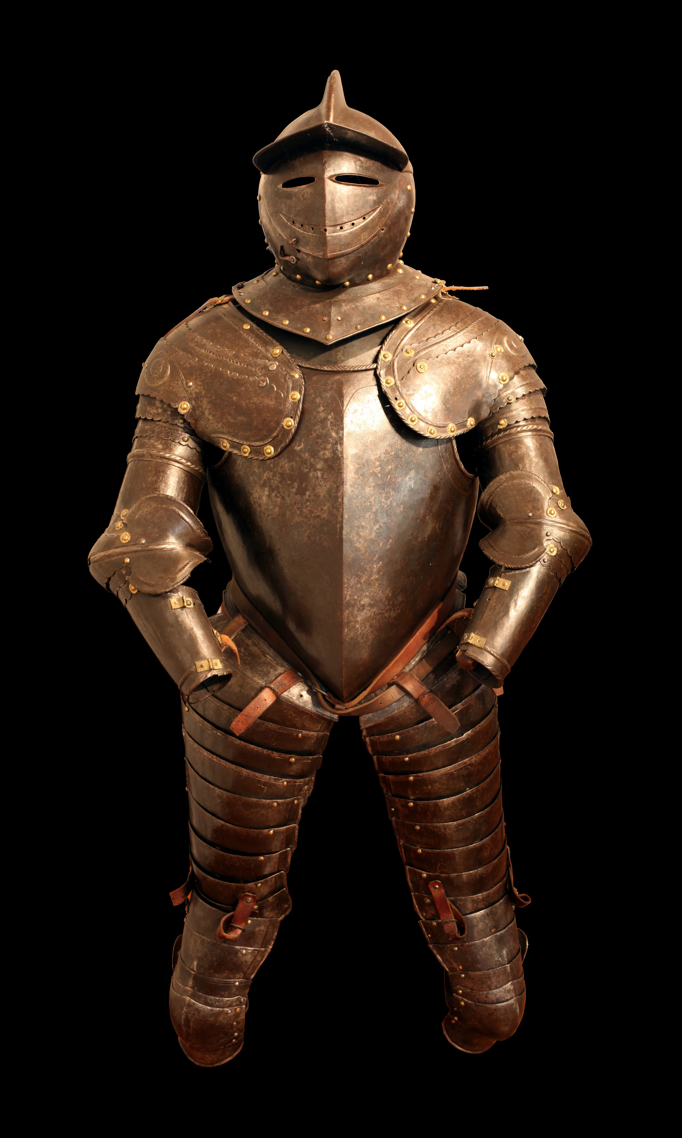 Cuirassier's armour in Savoyard style, ca. 1600-1610. On display at Morges military museum